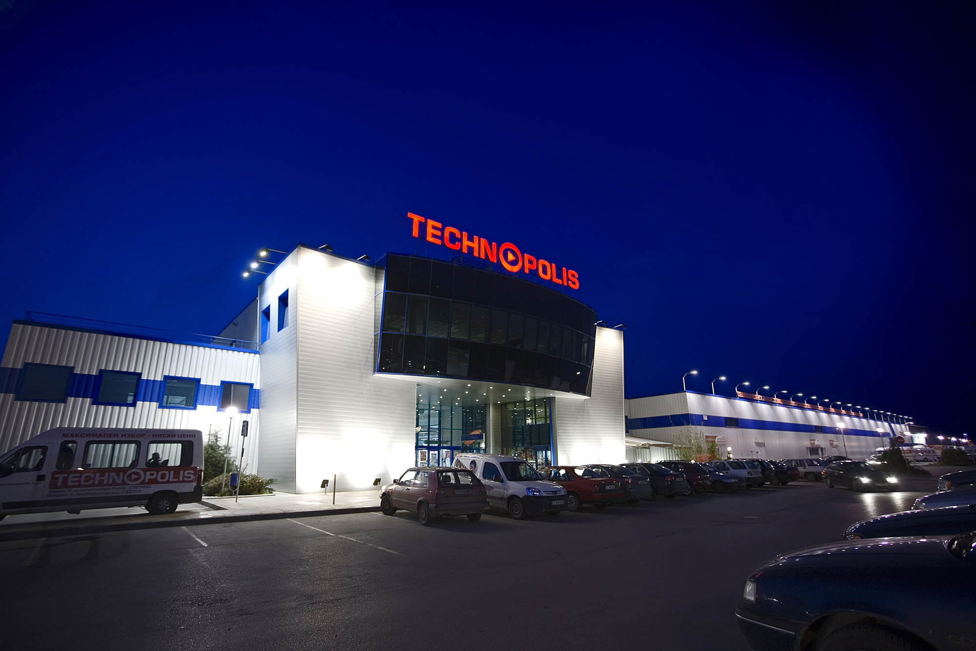 Shop Mladost